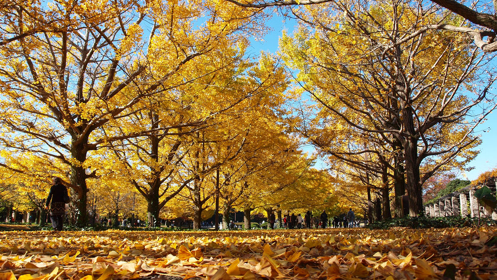 After long rain and overcast days, finally we have a fine autumn sky for colorful foliages.